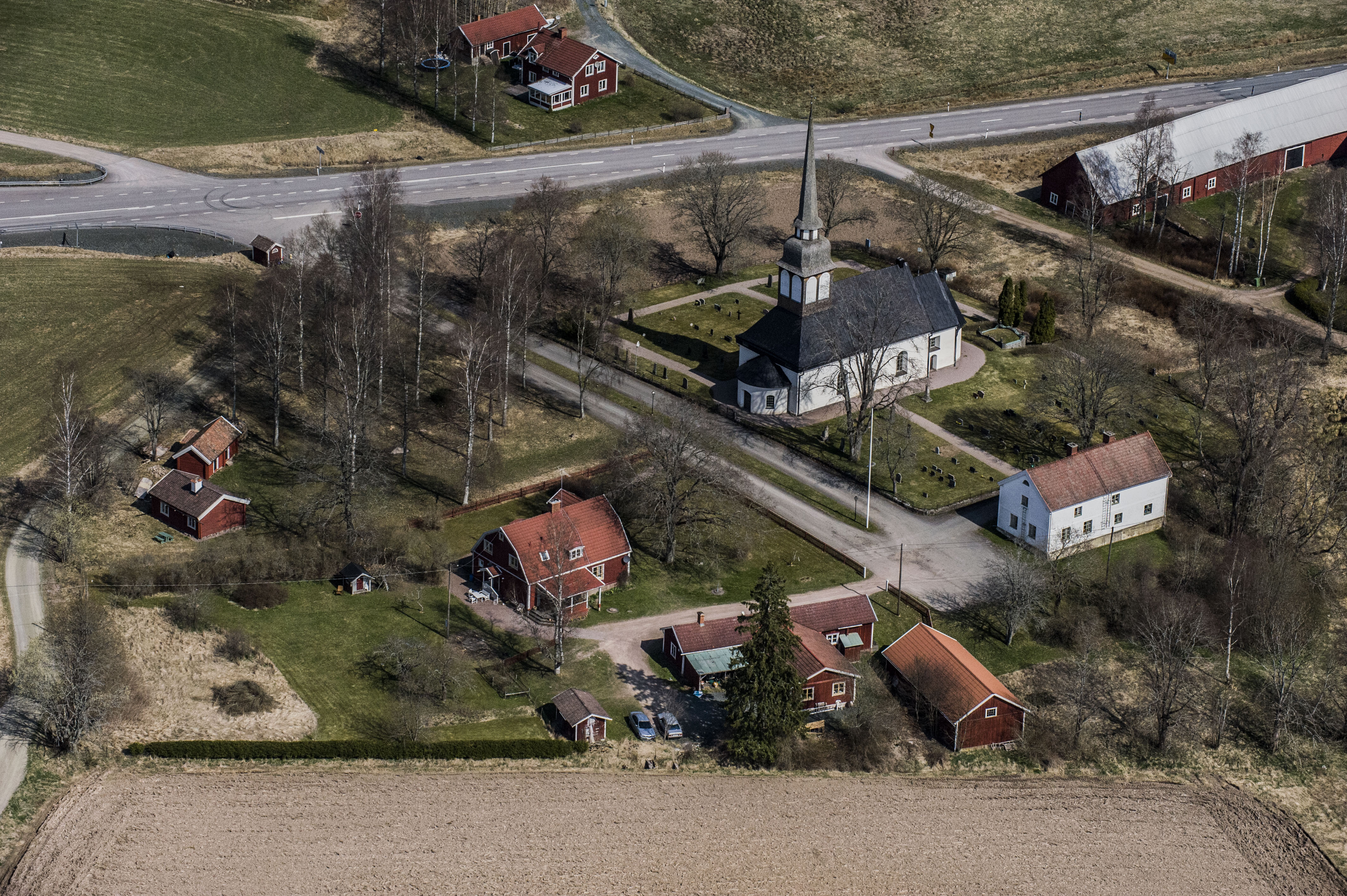 The Bredestad church from above.